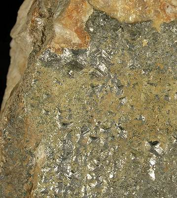 Löllingite Locality: Franklin, Franklin Mining District, Sussex County, New Jersey, USA (Locality at ) Size: 10.4 x 7.0 x 6.8 cm. Lollingite is iron arsenide and rich specimens, such as this, are uncommon from the Franklin District. A rich and large, 3-4 mm thick crust or vein of lollinginte covers the cabinet matrix on this very highly representative example of the species and famed locale. Very likely an older specimen. Ex. Robert Whitmore Collection.